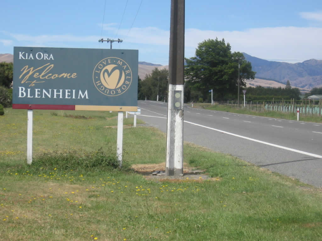 Welcome To Blenheim sign. Photographer: Matt von Furrie.